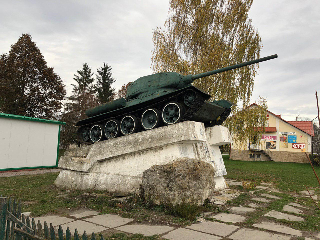 Tank Т-34-85, city Zbarazh (Ternopil Oblast)